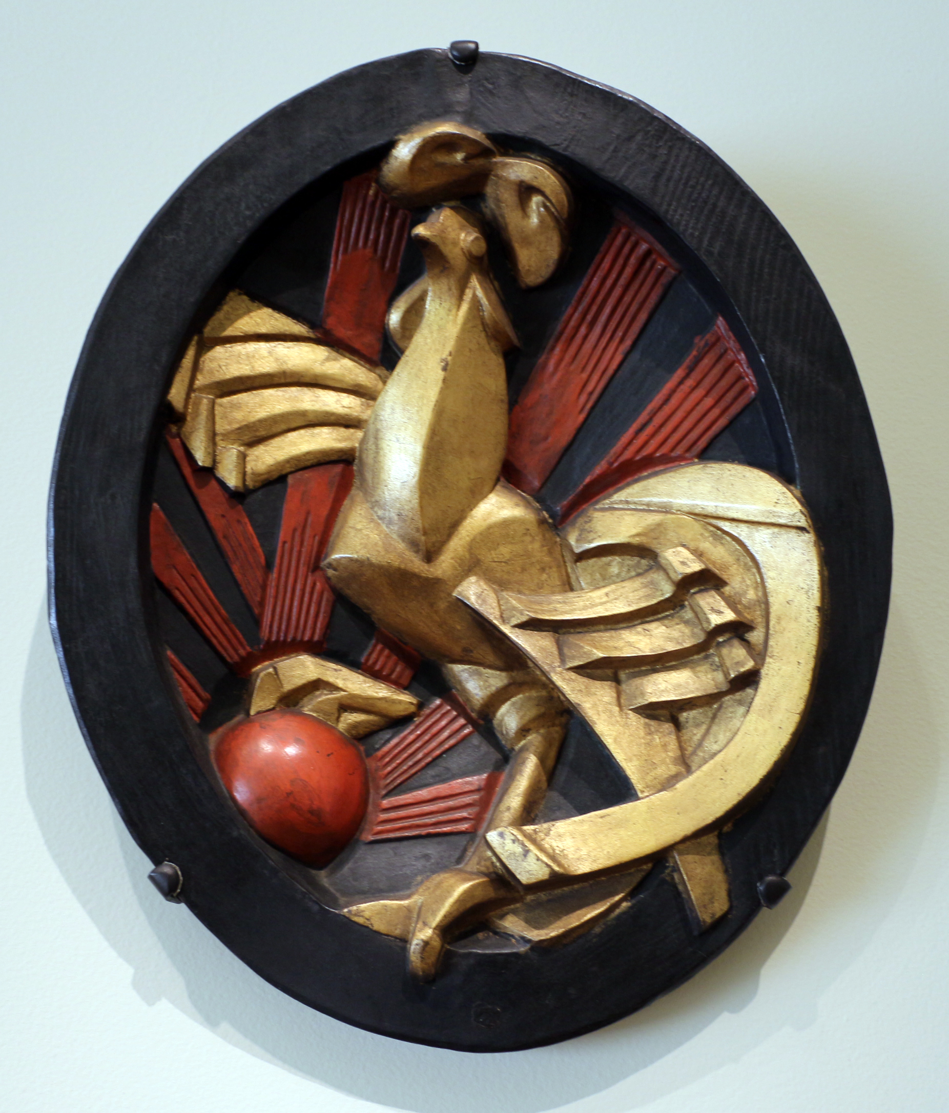 European sculpture in the Cleveland Museum of Art